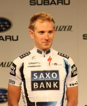 Michael Mørkøv